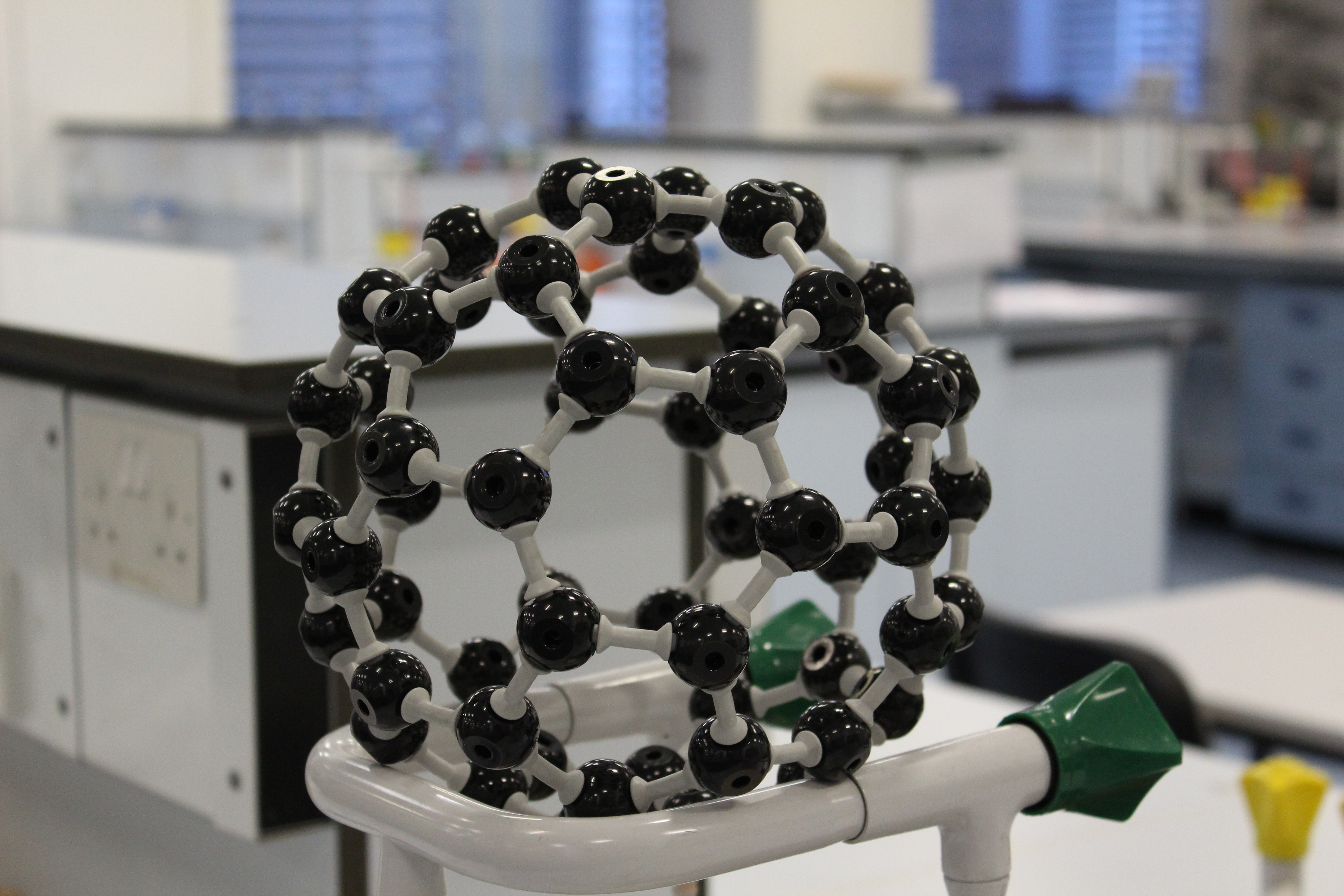 This model shows the arrangement of carbon atoms in a fullerene (or 'buckyball') a large molecule made up of 60 carbon atoms. Photo: UCL Chemistry